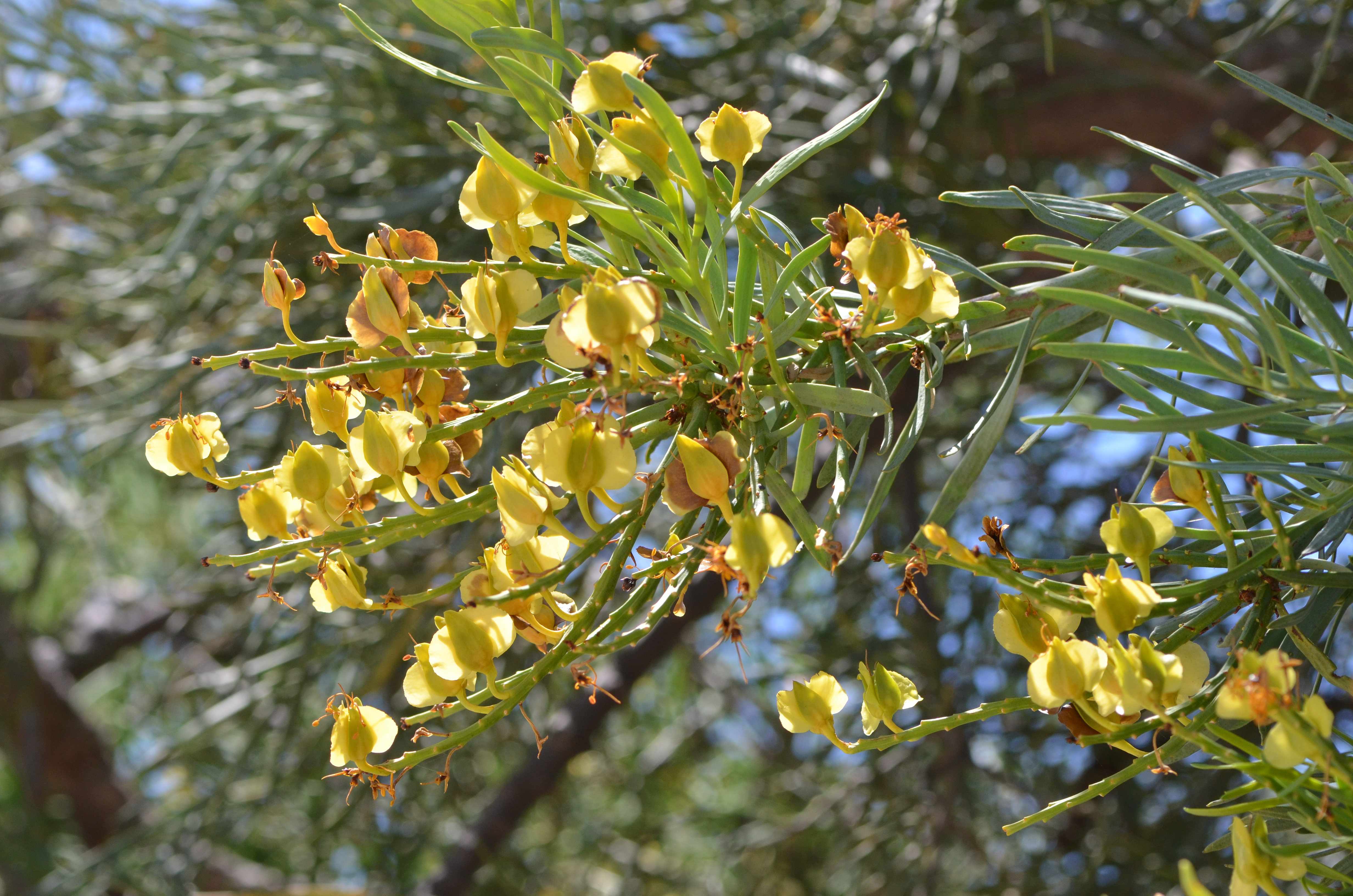 Christmas tree, Nuytsia floribunda, fruiting. Kensington Bushland, Perth, WA 6151